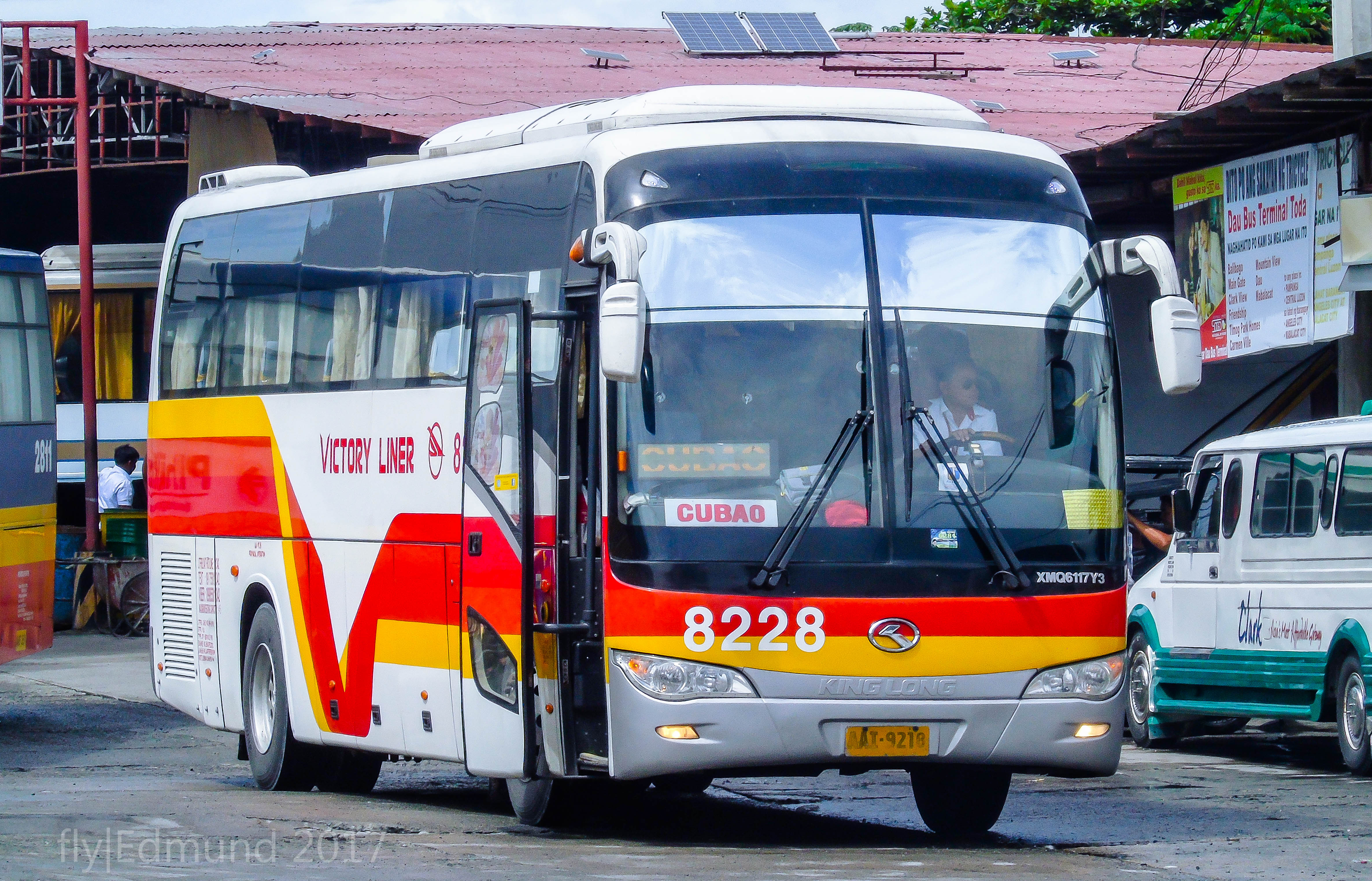 Departing Mabalacat Bus Terminal on its way back to Cubao, Quezon City